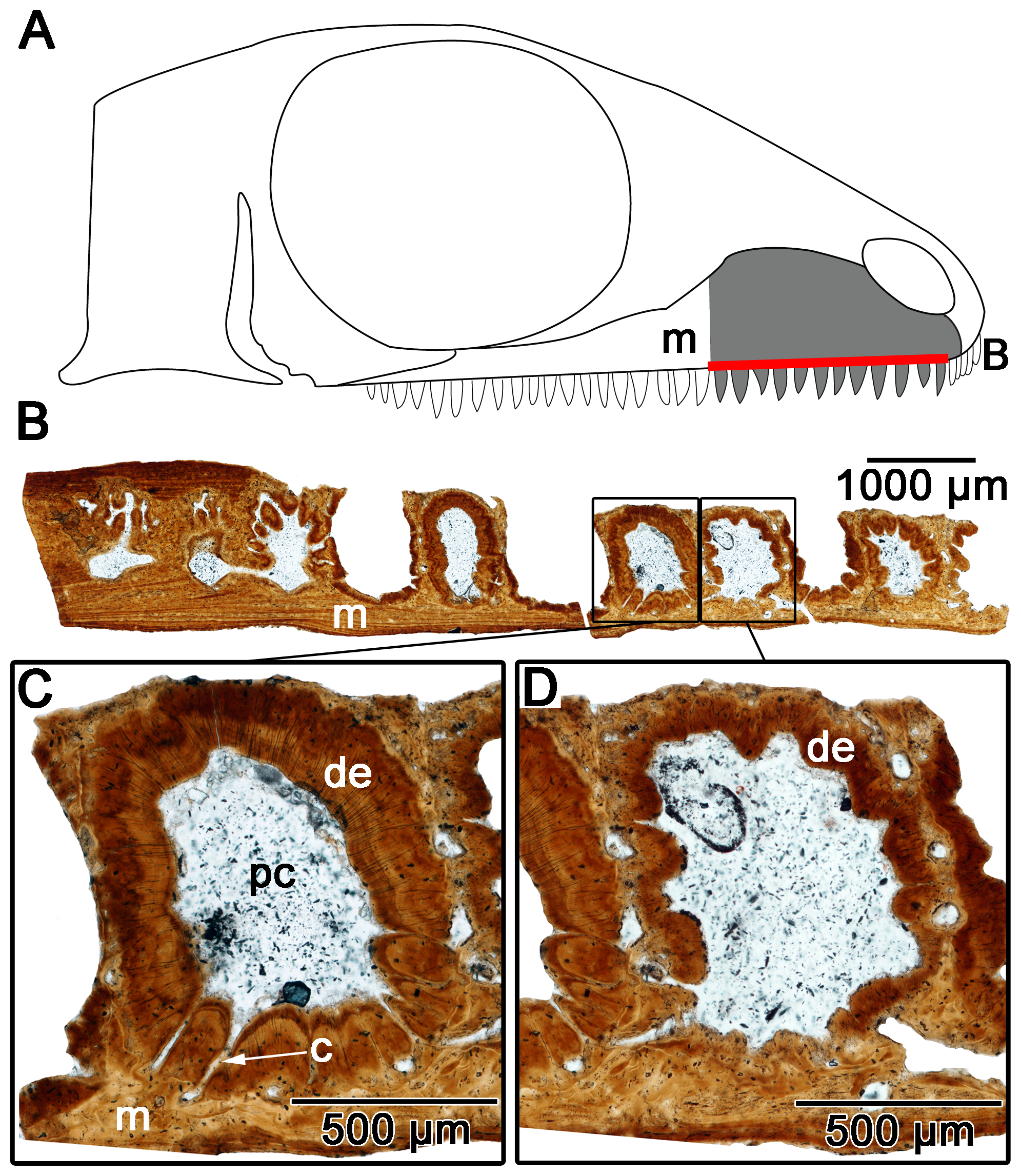 Figure 7. Cross-sectional views of the maxillary teeth of Microleter mckinzieorum (ROM 67375). A: diagram indicating from what parts of the maxilla the histological sections were taken. B: cross-section of the maxilla. C: close up view of one of the maxillary teeth from B. Shows the presence of radial canals in the dentine. D: close up view of one of the maxillary teeth from B. Shows the loose dentine infolding that is found at the base of the teeth. c, canal; de, dentine; m, maxilla; pc, pulp cavity.